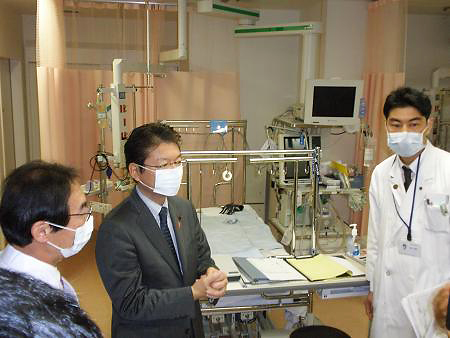 Akira Nagatsuma, Minister of Health, Labour and Welfare, inspected Tokyo Women's Medical University Hospital in Shinjuku Ward, Tōkyō Metropolis on December 3, 2009.(For terms of use, see 利用規約｜厚生労働省.)